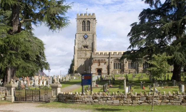 Parish Church of St Chad. Hanmer Parish Church is in the Diocese of St Asaph and located in the County of Flintshire. The church occupies a site overlooking Hanmer Mere. Fire caused considerable damage to the church in 1889 but following repairs the church was reopened in April 1892